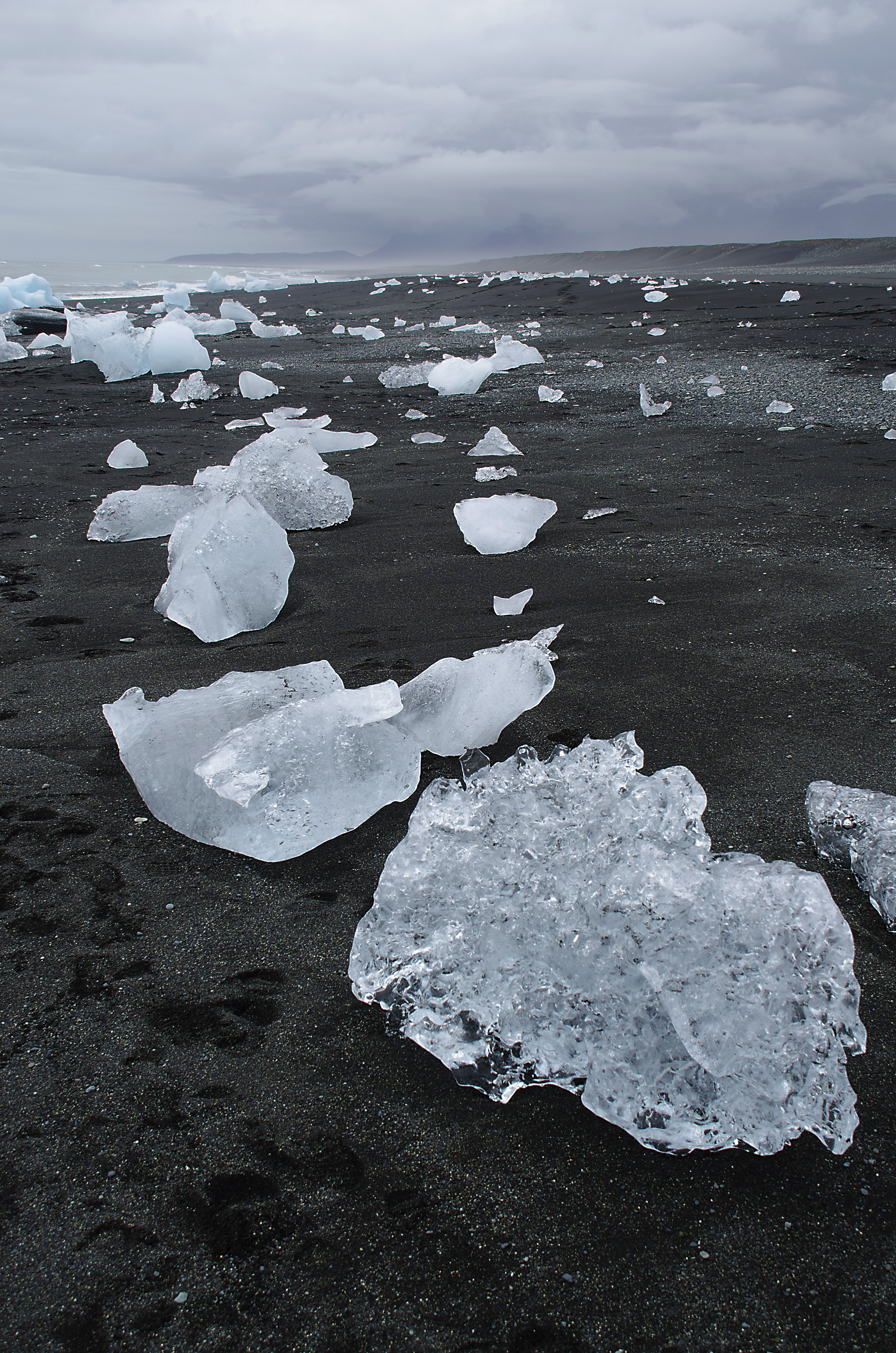 Ice on the beach near Jökulsárlón, Iceland